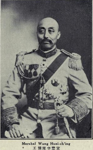 Wang Huaiqing, Maoxuan (1876 - 1953)